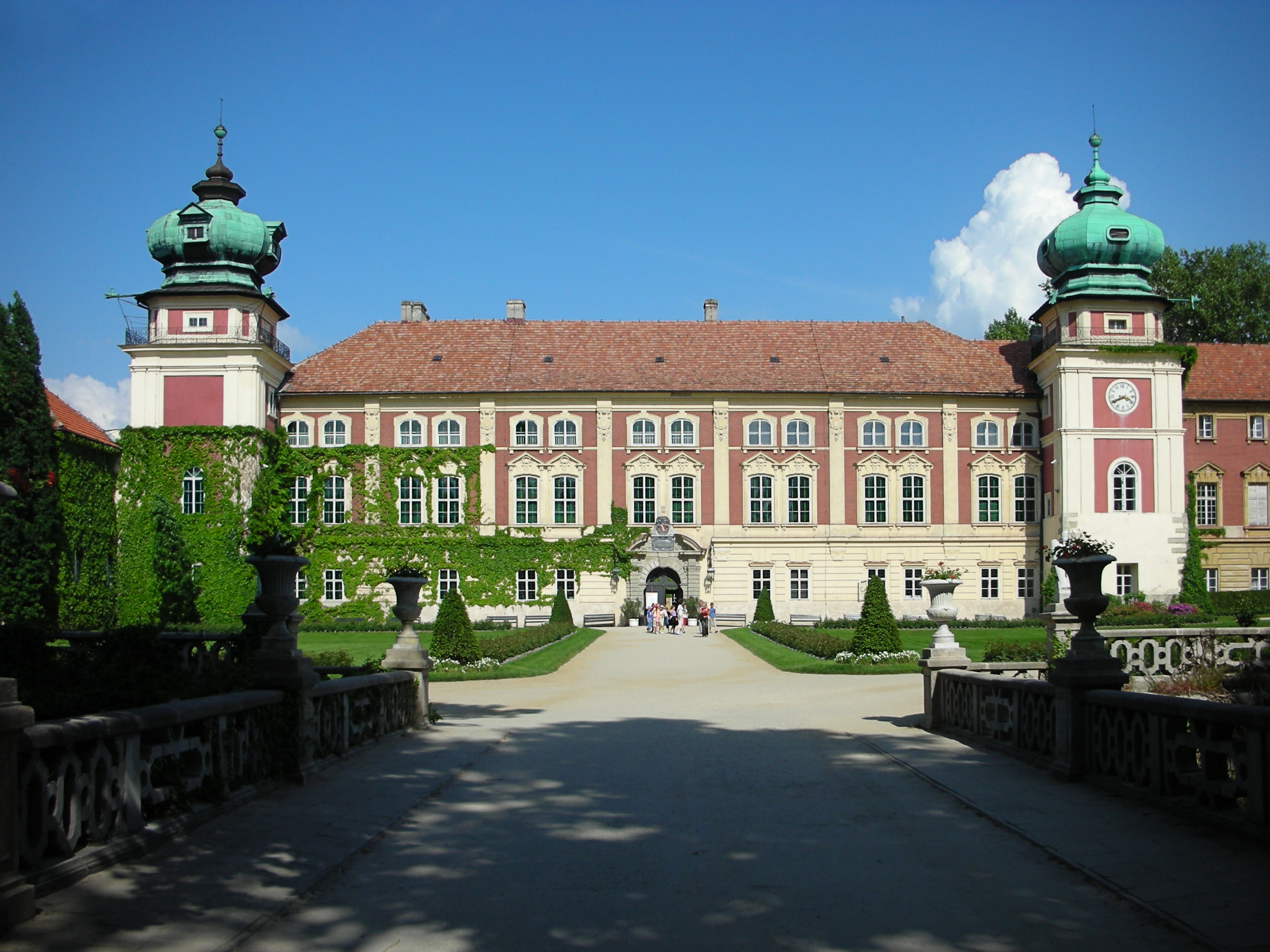 The Lubomirskich Palace, in Łańcut (Poland)